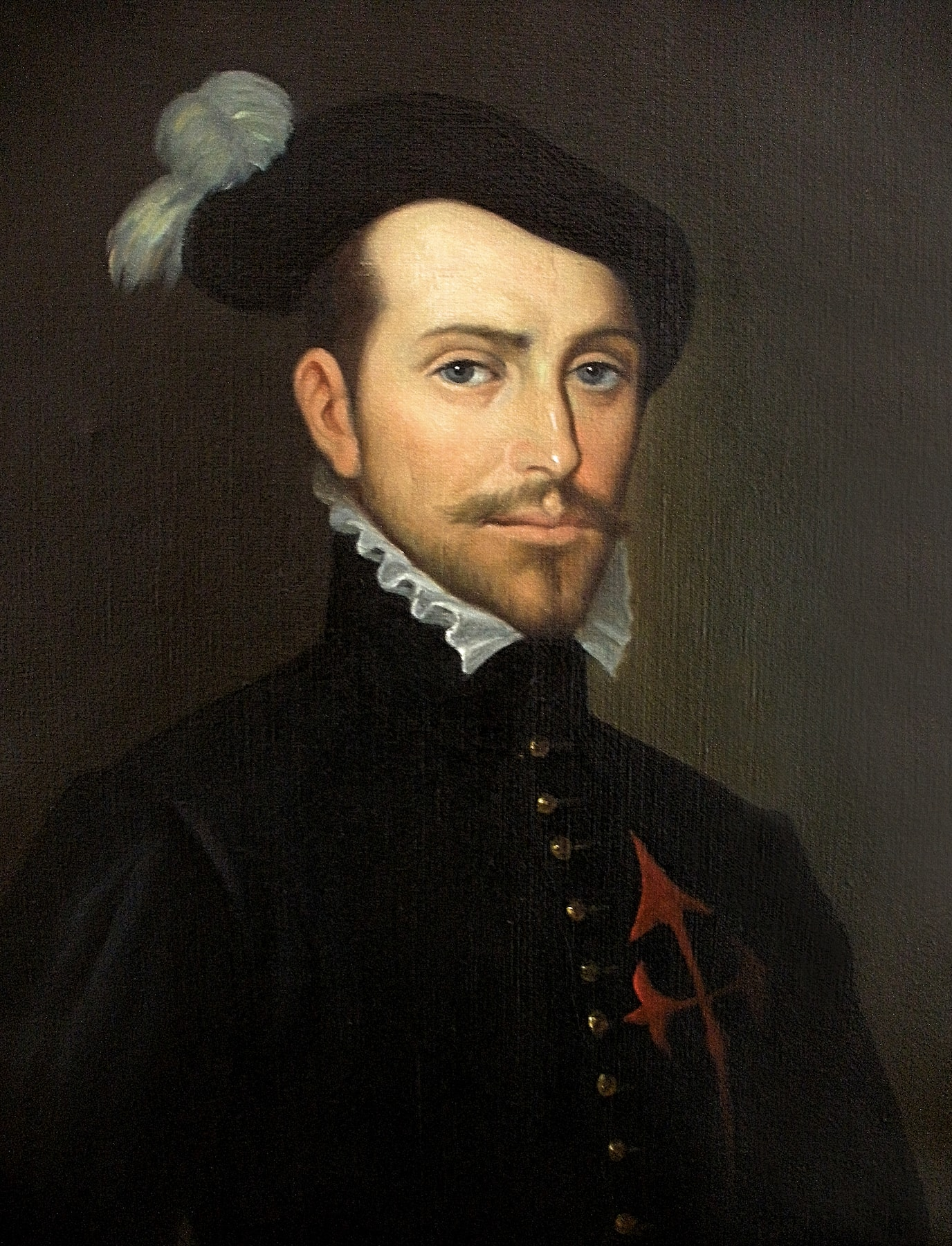 Portrait of Hernán Cortés (1485-1547), 17th century. Found in the collection of Museo Naval de Madrid.